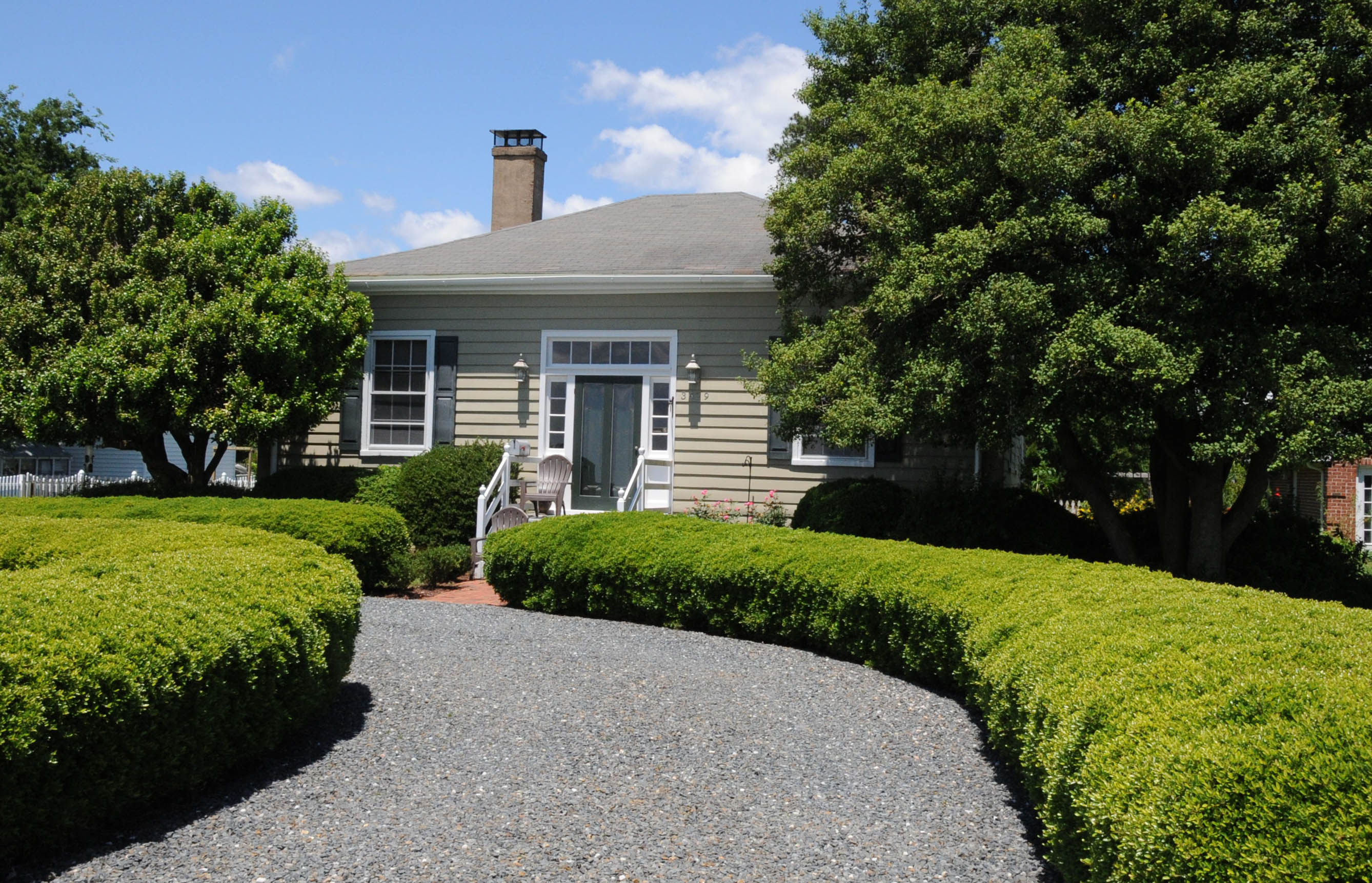 JOHN SIMPSON HOUSE AT 3629 CHESAPEAKE AVENUE IN THE OLDEST HOUSE IN THE DISTRICT BUILT IN 1849